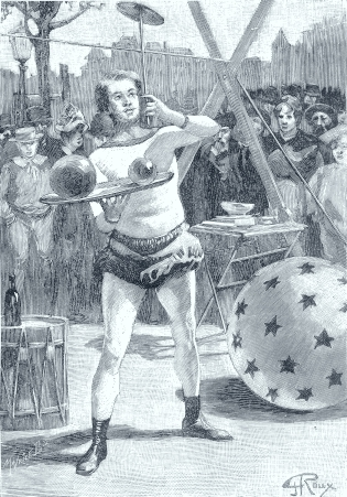 An illustration from Jules Verne's novel "César Cascabel" (1890) drawn by George Roux.